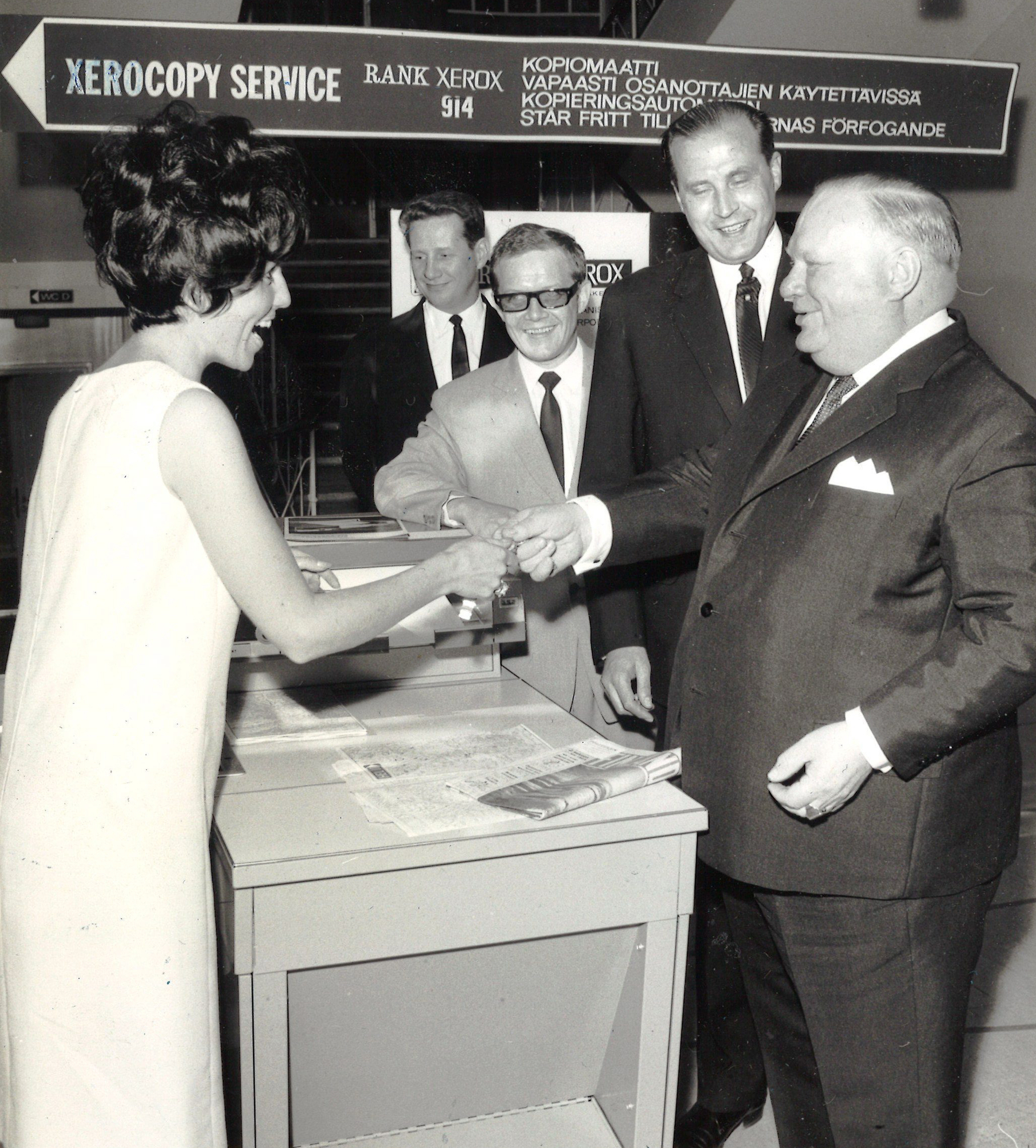 The Finnish minister Kaarle Sorkio (1910-1978) lets his wristwatch be copied with a Xerocopy machine at the Nordic Sales and Advertisement Congress in Helsinki. From Right to left: Kaarle Sorkio, Olle Herold, Mr. Pasiwirta, economist von Schantz, and Lenita Airisto.